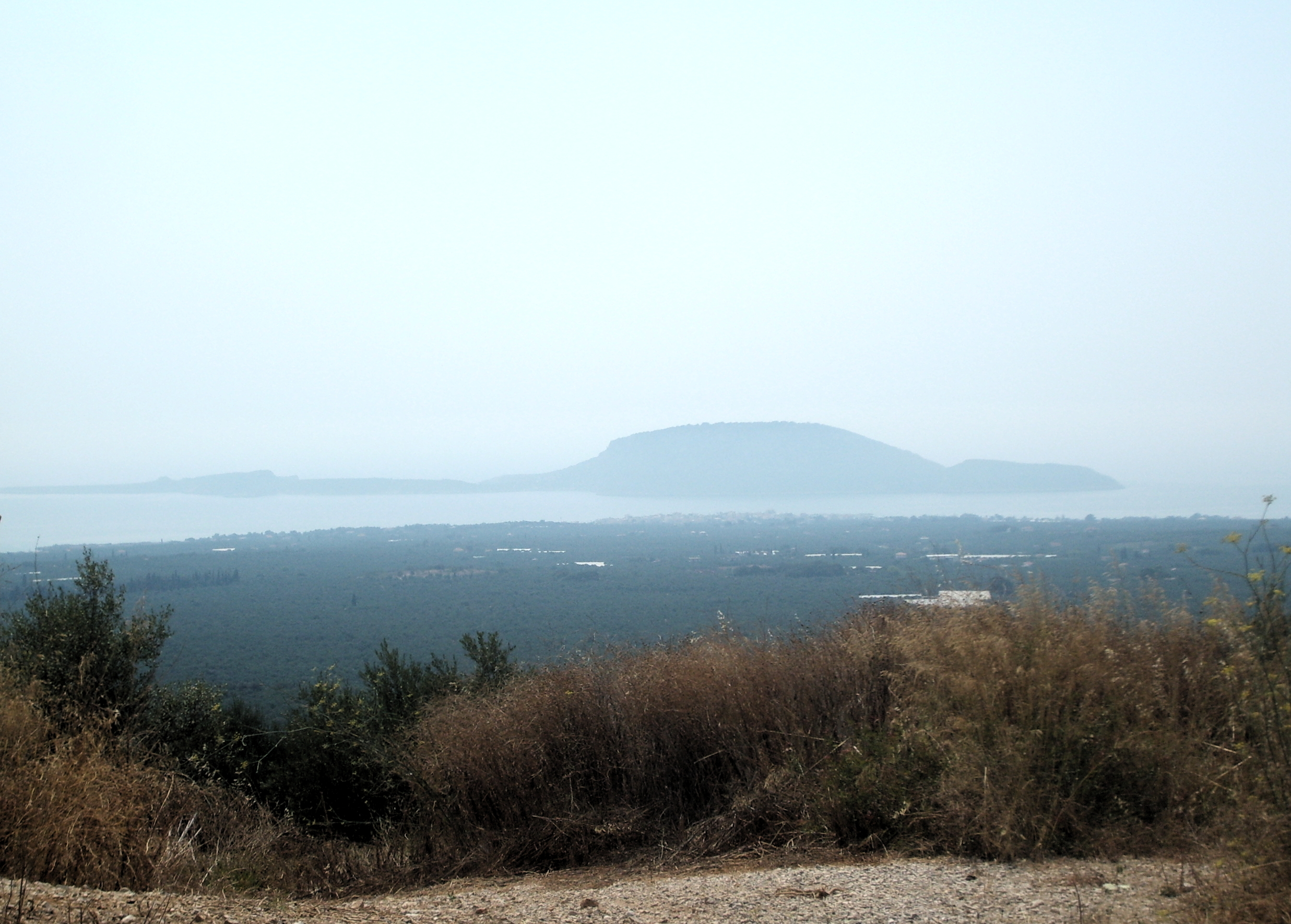 Proti Island, Ionian Sea, Greece